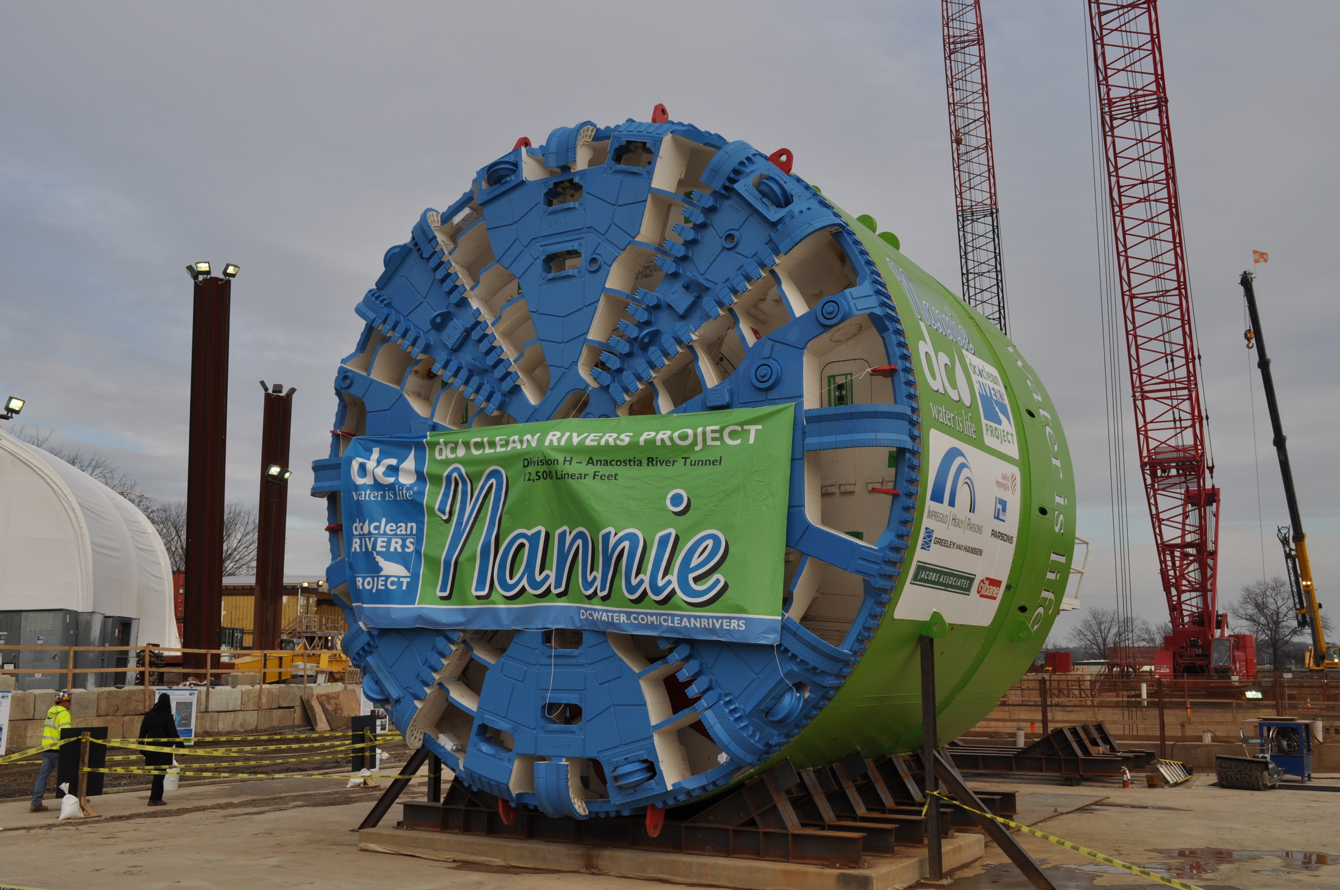 View of cutting head portion of a tunnel boring machine used for the DC Water "Clean Rivers Project" in Washington, D.C. The head was built in Germany and is 26 ft in diameter. In 2013 DC Water began a 20-year tunnel construction project to reduce combined sewer overflows to local rivers.